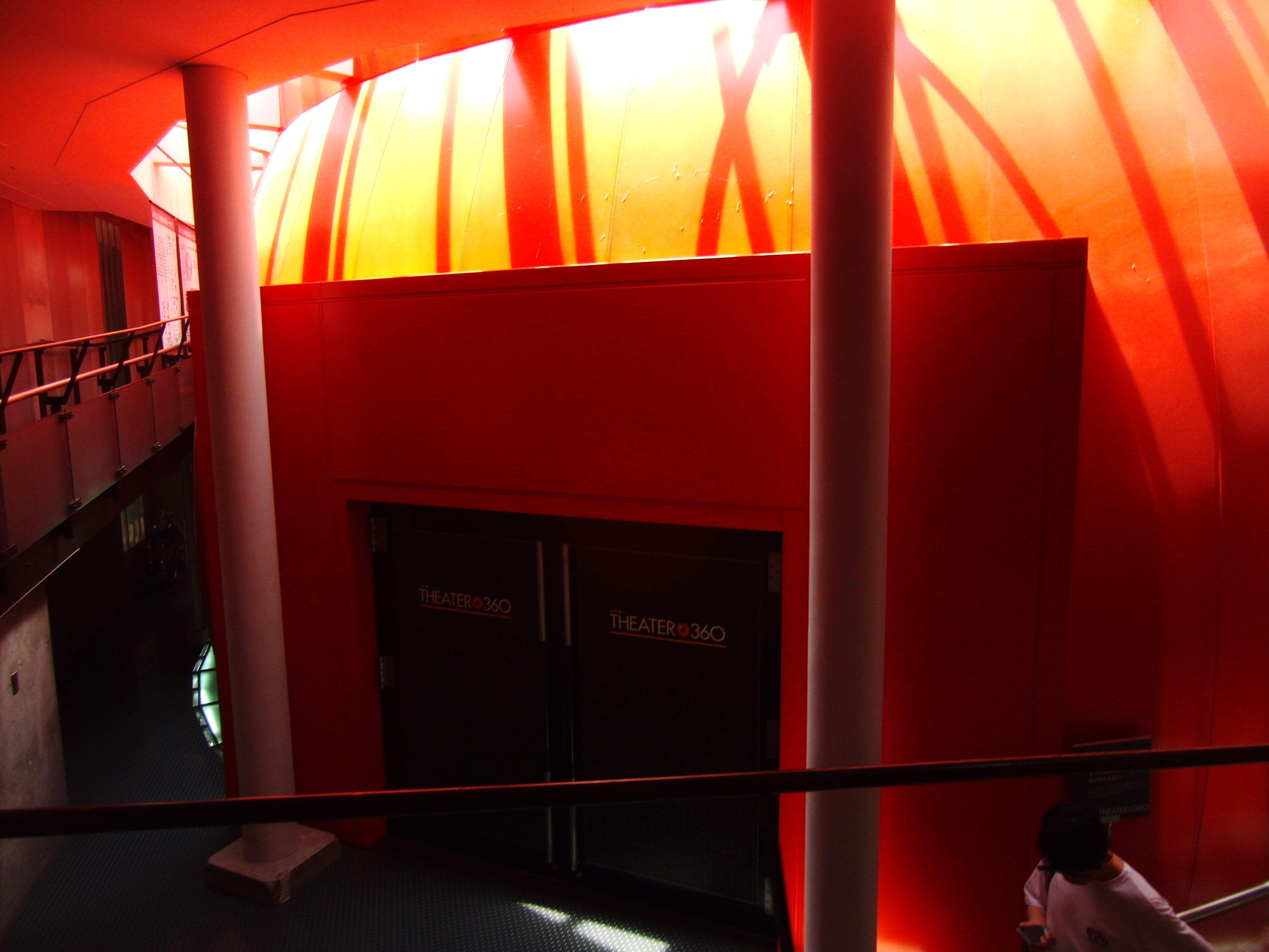 Entrance of "THEATER 360", National Museum of Nature and Science, Tokyo, Japan.